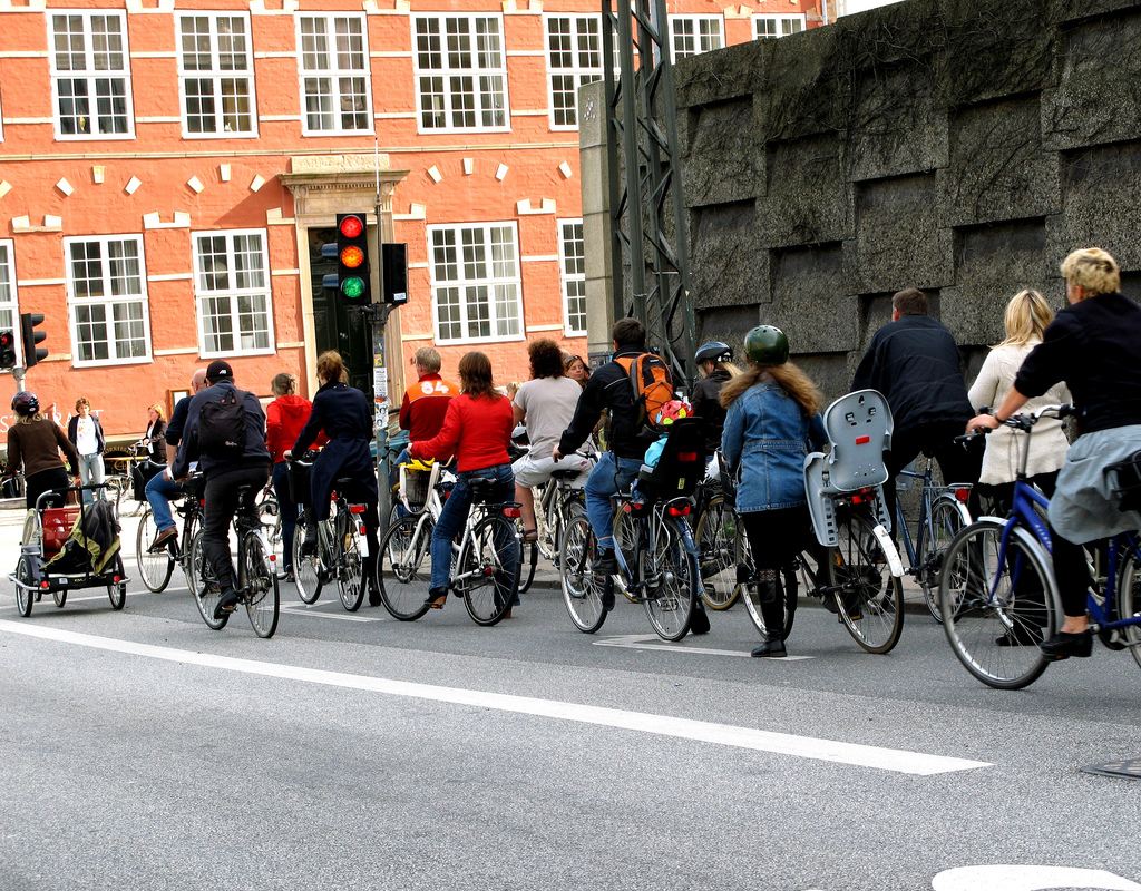 Bicycle rush hour in Copenhagen, where 37% of the population ride their bikes each day.